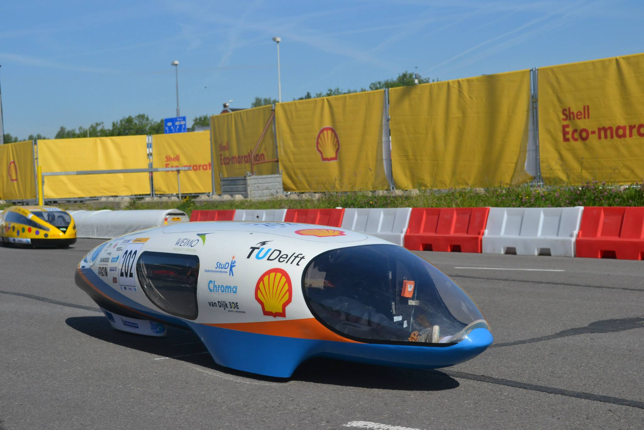 The photograph of Eco-Runner 4